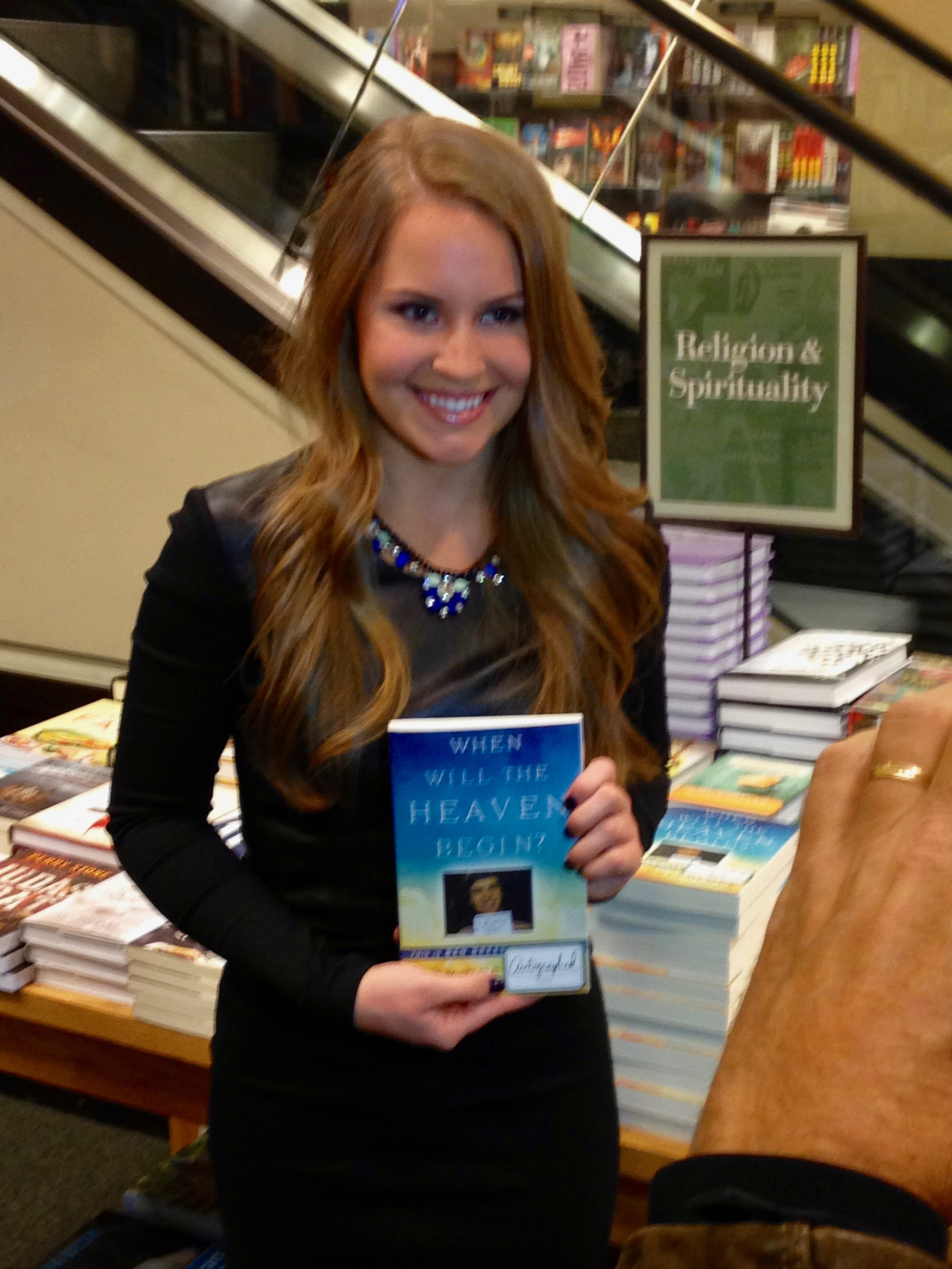 Breedlove's sister co-author's When Will the Heaven Begin, along with Ken Abraham. The book is a memoir of Breedlove's life and was released October 2013.